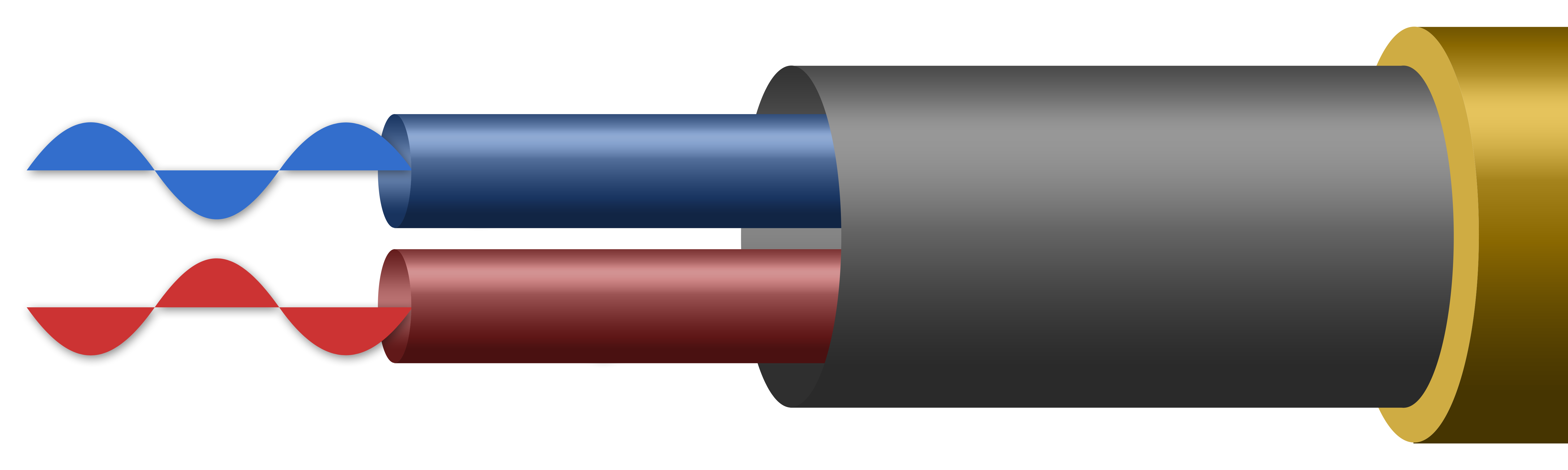 homopolar cable represent in section